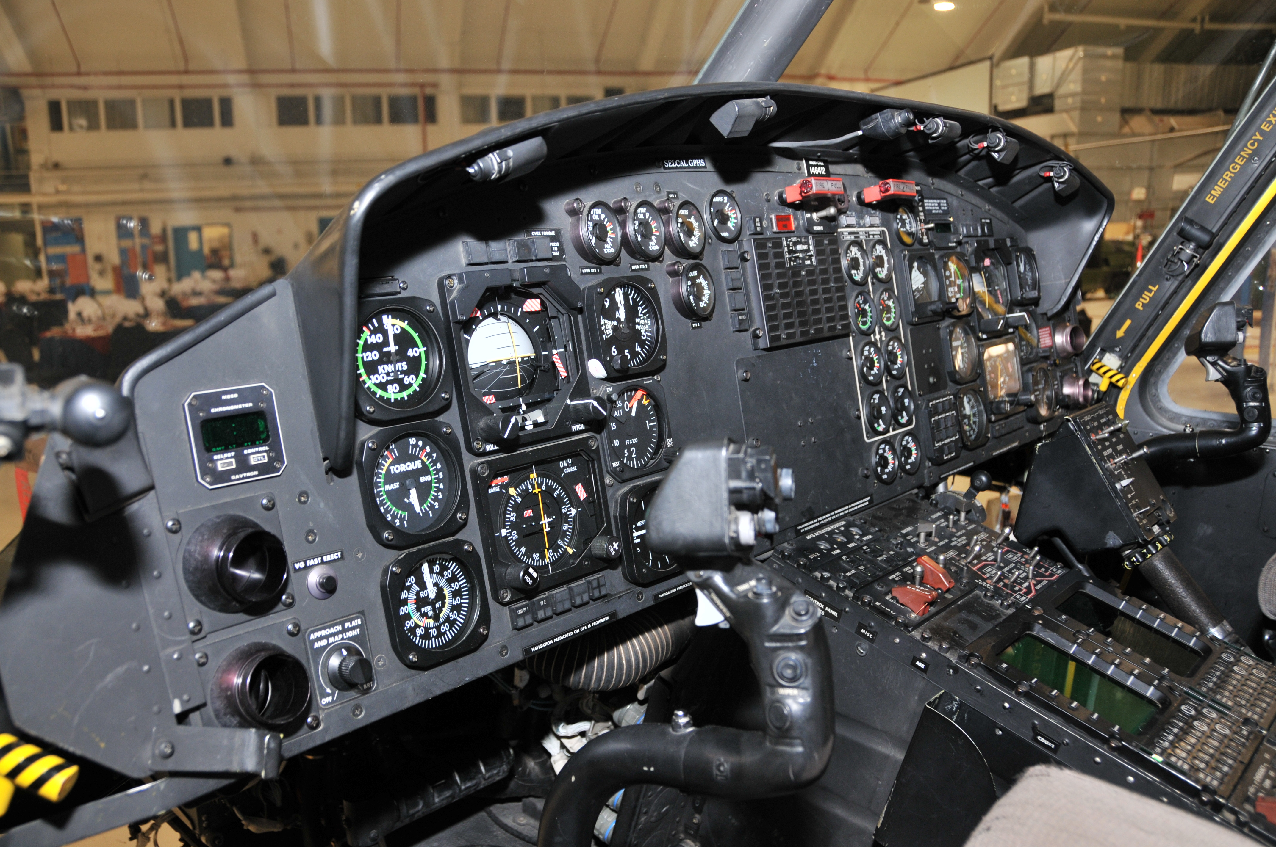 Pilot's chair, CH-146 Griffon.